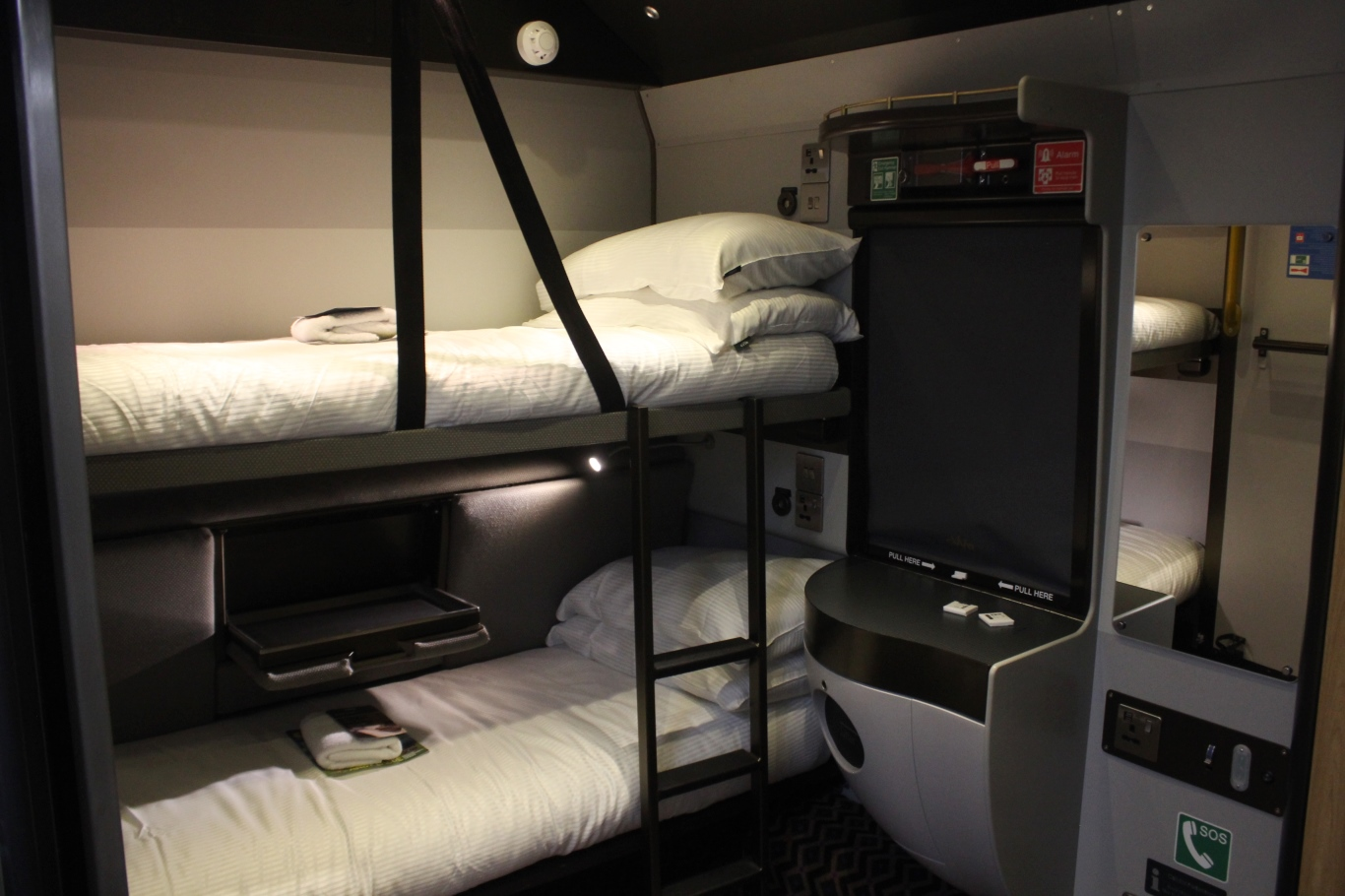 The accessible berth on Great Western Railway sleeping car 10616.